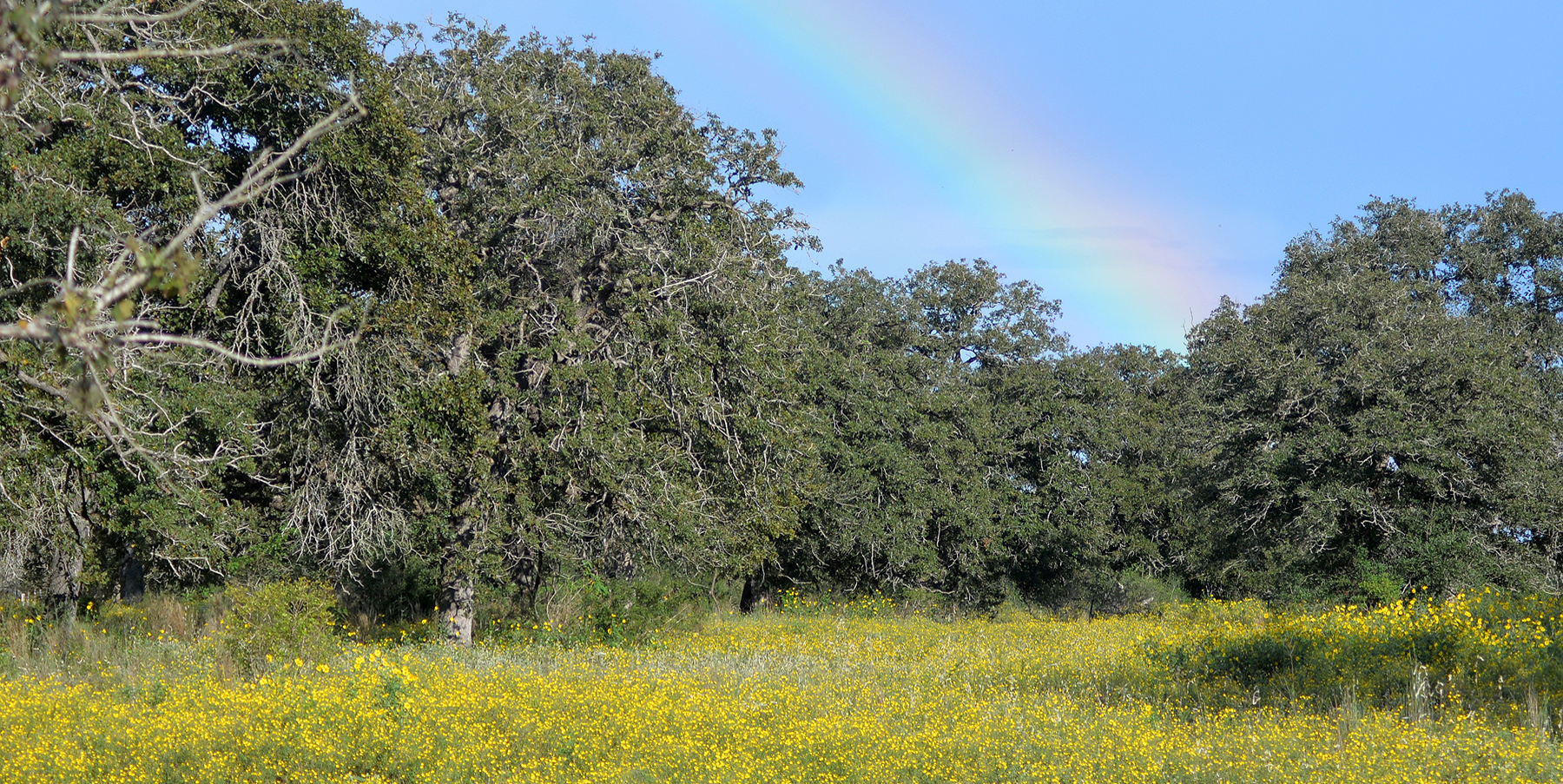 Oaks trees (Quercus) and wildflowers growing in the East Central Texas forests (Southern Post Oak Savannah) ecoregion of Texas, Nockenut Road [County Road 421] Guadalupe County, Texas, USA (29.4151°N, 97.8868°W, 172 m.). Photographed on 6 October 2018 by William L. Farr.